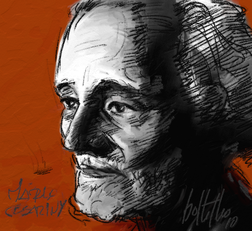 Mário Cesariny, painting by Bottelho. Mário Cesariny de Vasconcelos also known as Mário Cesariny (August 9, 1923, Lisbon, Portugal - November 26, 2006, Lisbon, Portugal) is among the most important Portuguese surrealist poets